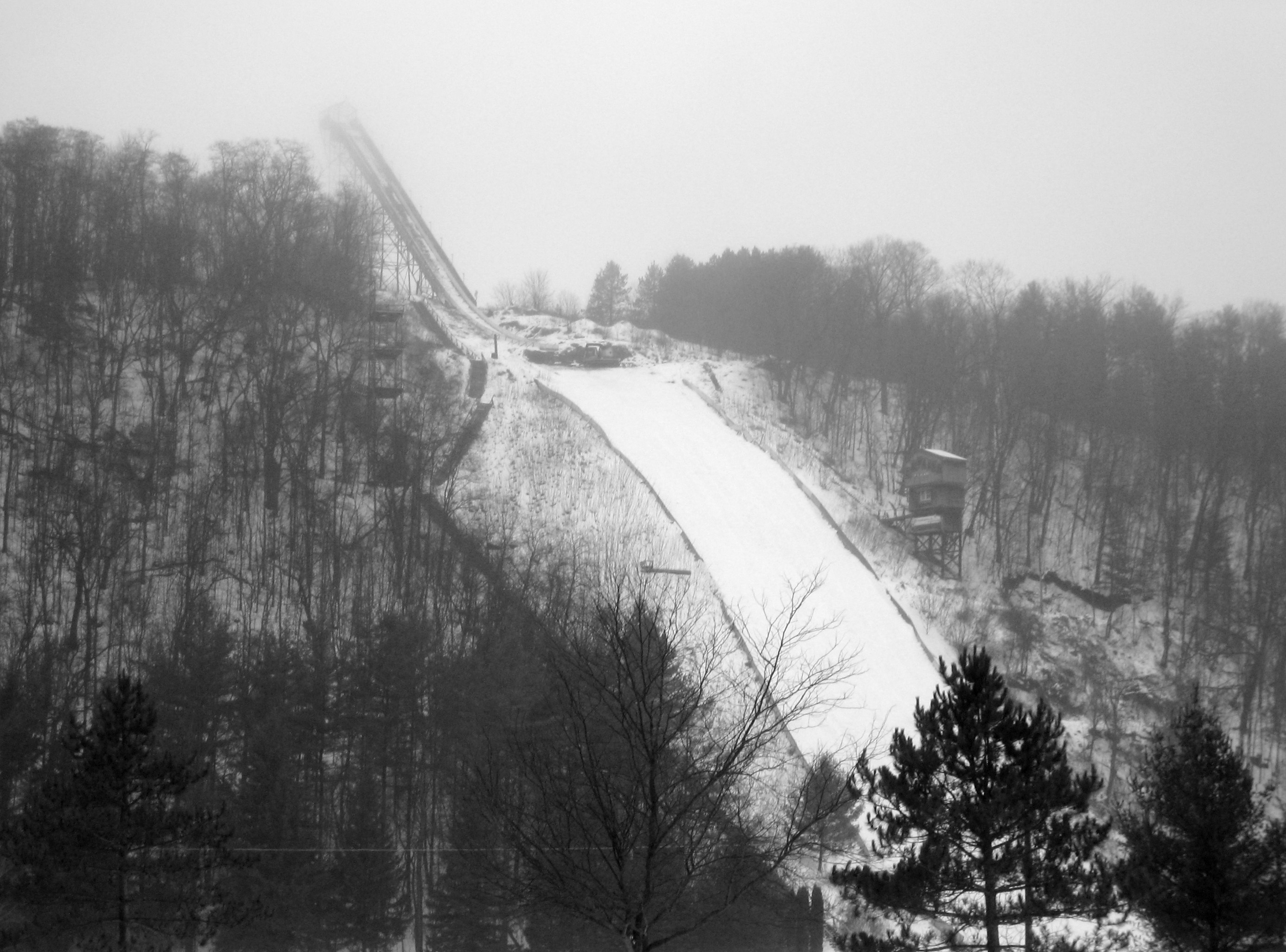 Picture of the Snowflake ski jump during pre-tournament work